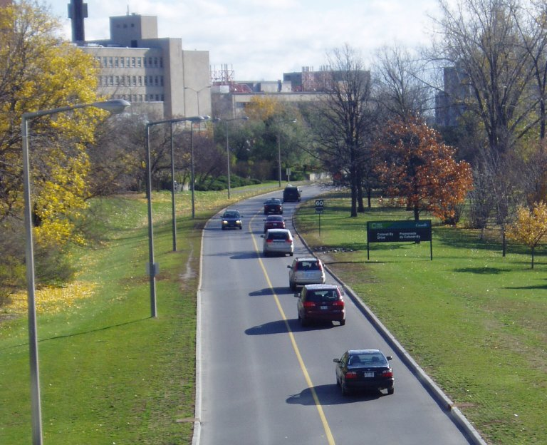 Colonel By Drive in Ottawa, taken by SimonP